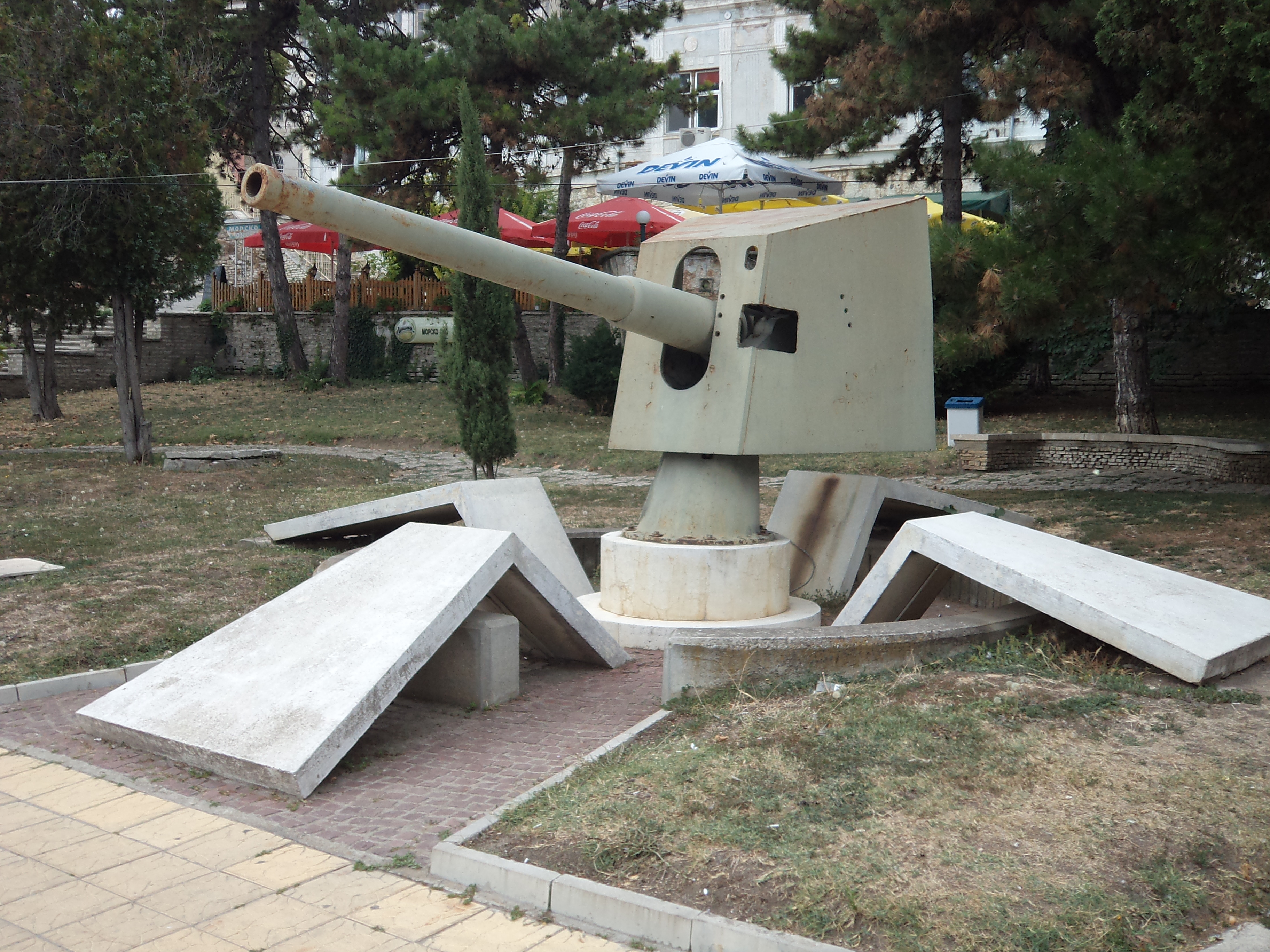 Monument en honour of the bulgarian soldiers.